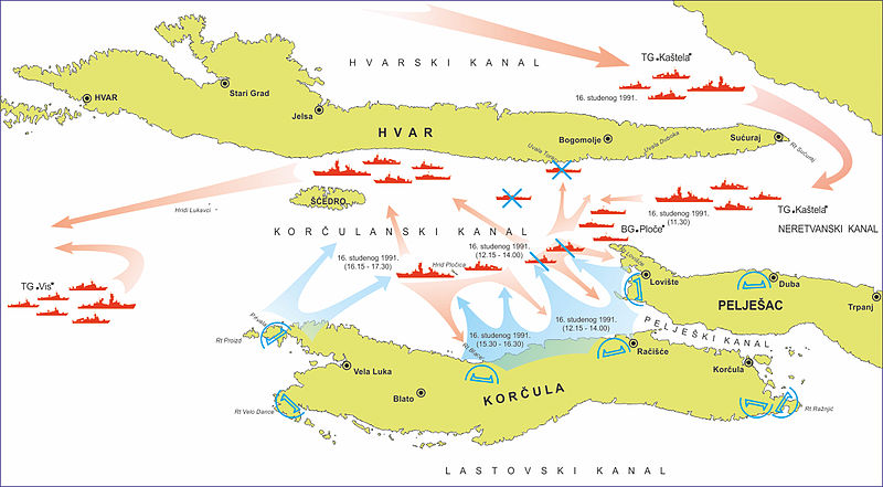 Sketch of the battle of Korčula channel between three Yugoslav Navy task forces and Croatian Navy coastal defenses on 16 November 1991.